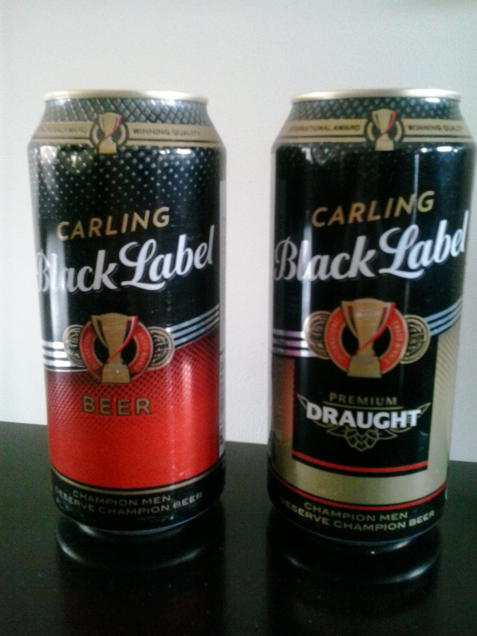 A photograph of two varieties of Carling Black Label Beer cans